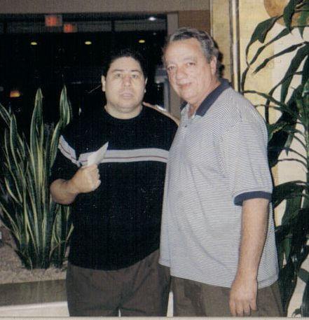 Puerto Rican boxing legend Wilfredo Gómez with Tony the Marine.